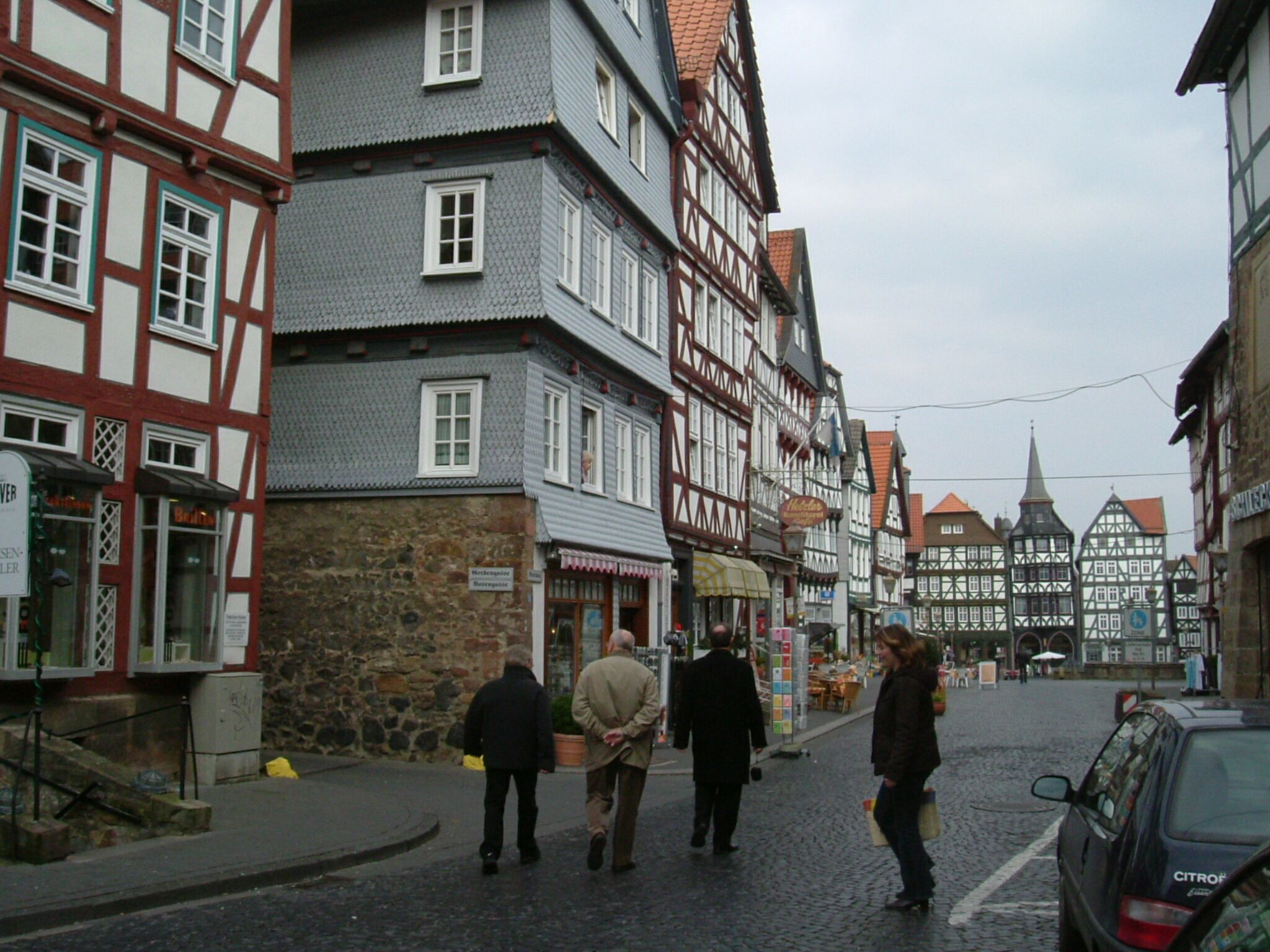 Fritzlar, Germany. Timber framed houses along the market place. Author: Peter Kaboldy, 03. 2007.